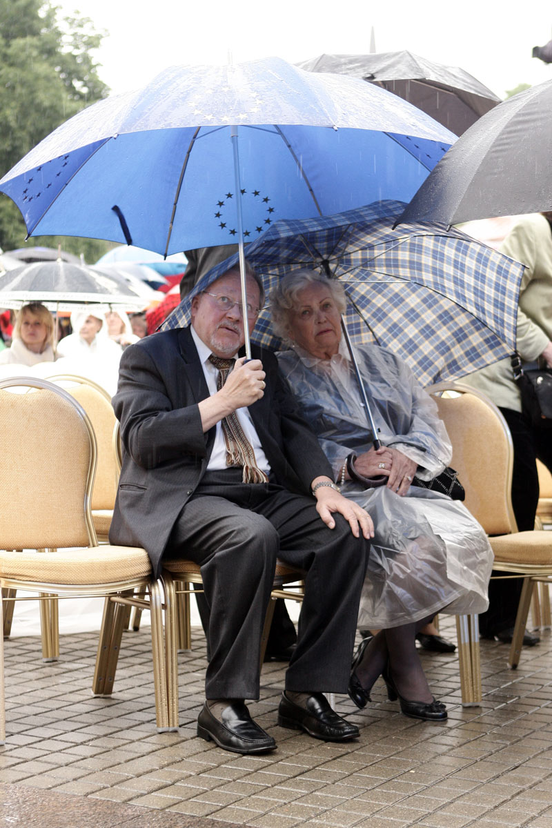 Dalia Grybauskaitė Presidential inauguration, Lithuania, 2009-07-12 Vytautas Landsbergis su žmona